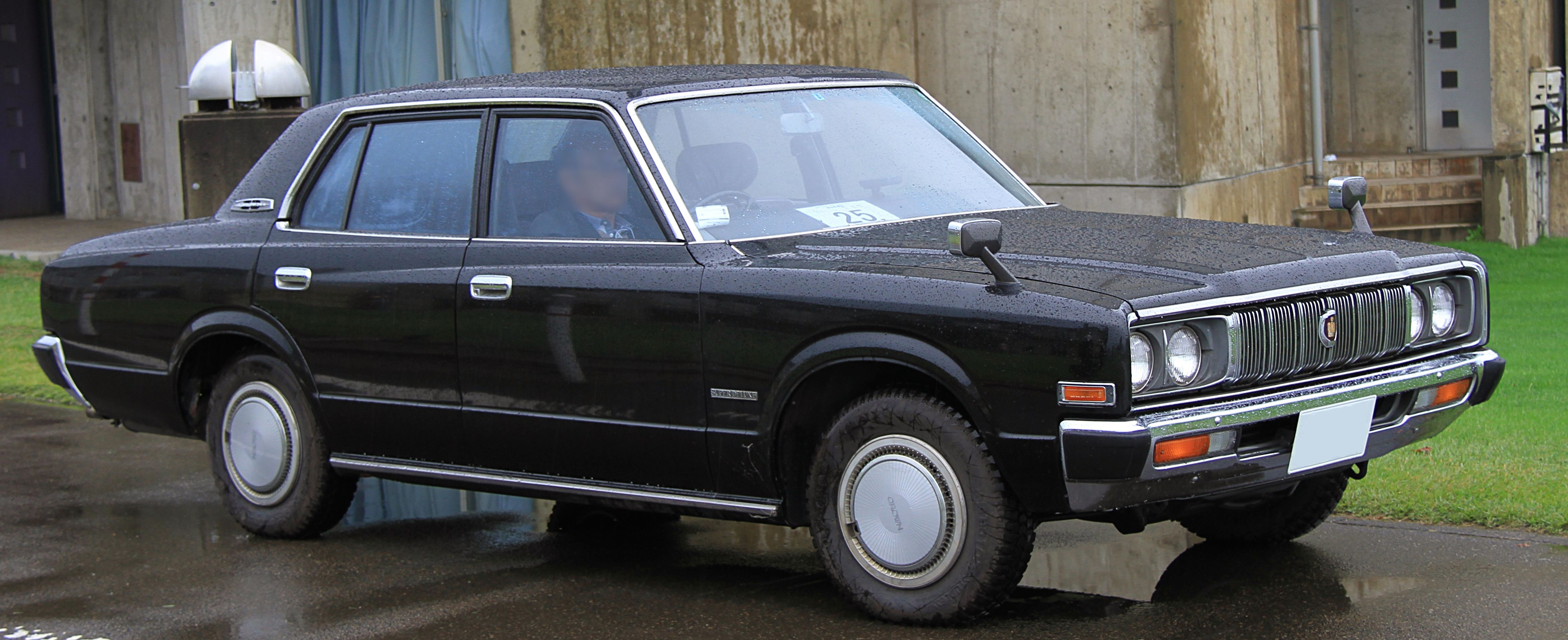 Toyota Crown